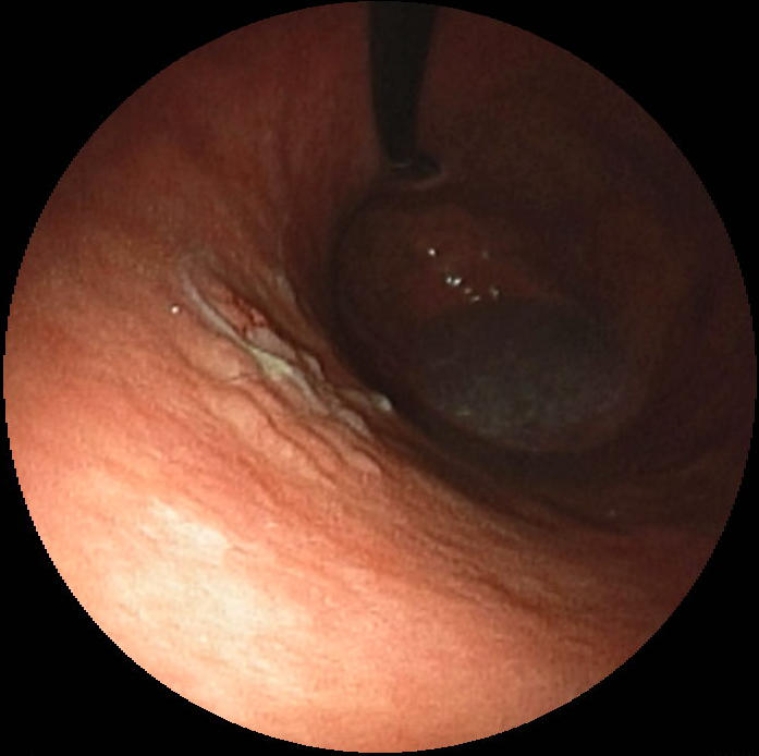 Early gastric cancer in the gastric body